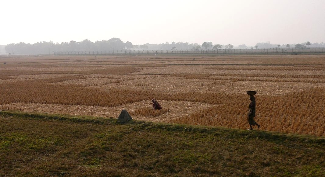 The Borderfence between Bangladesh and India. Taken close to Jaipurhat (Hili Border Station). Picture taken from Bangladesh. Border stone in the front - Border fence in the background on the Indian Territory.